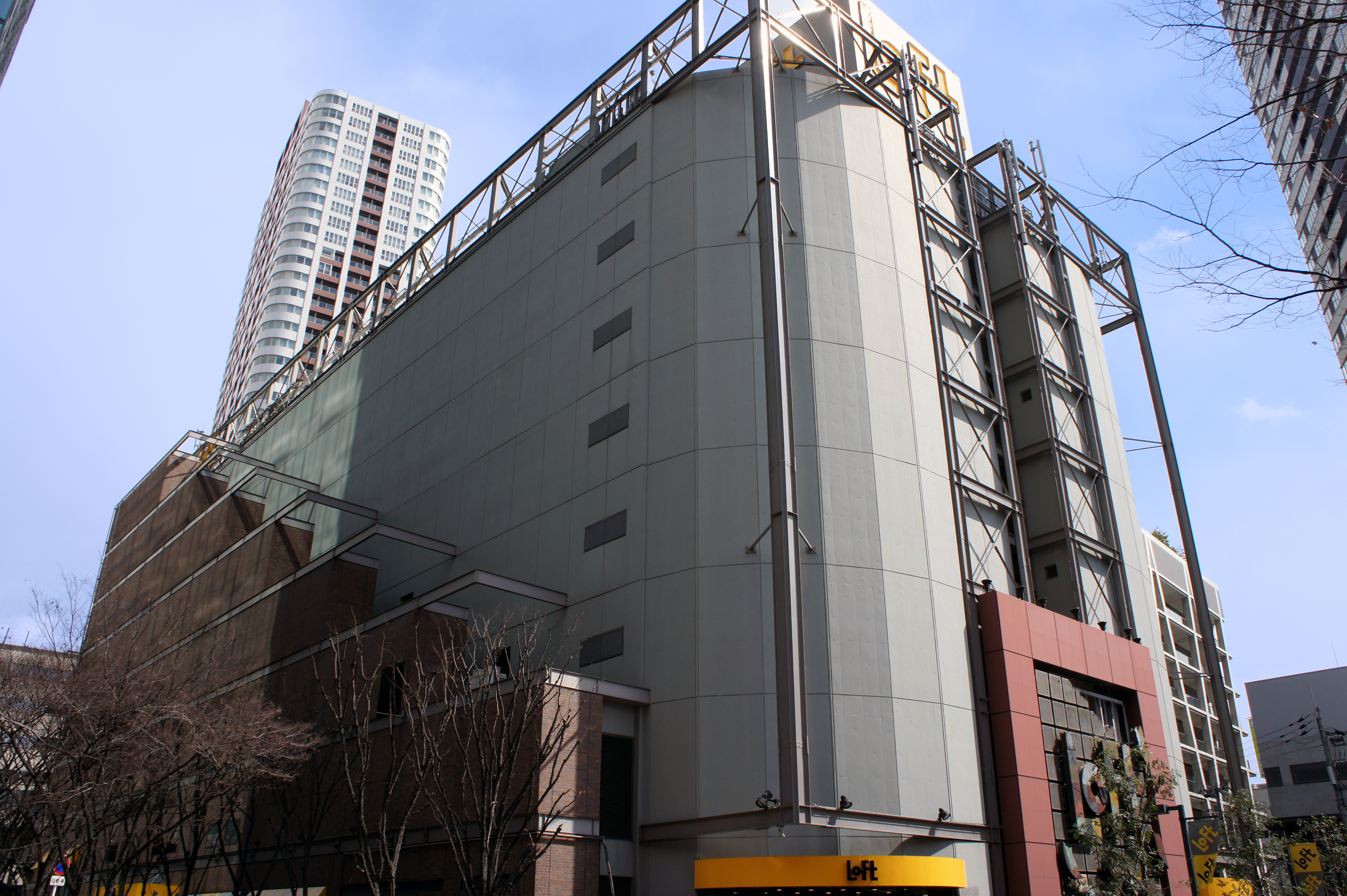 Umeda LOFT, 16-7 Cahyamachi Kita-ku Osaka-City Kyoto Japan.